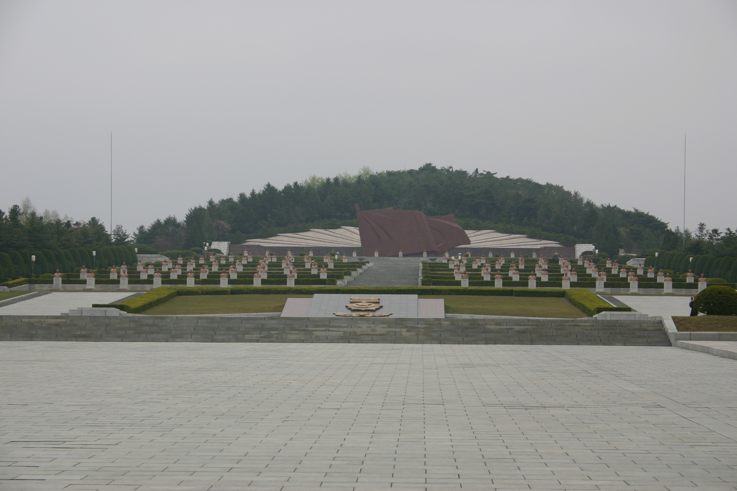 Pyongyang Revolutionary Cemetery (overview)